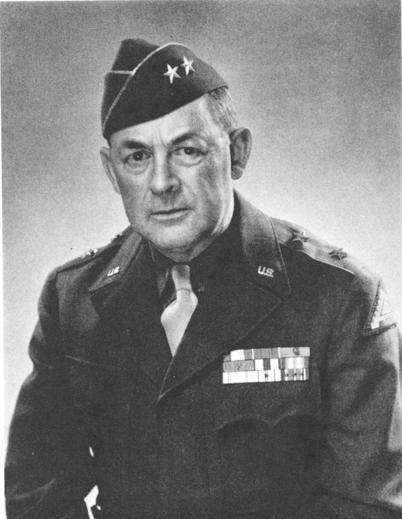 Major General Arthur A. White, Chief of Staff, US Seventh Army